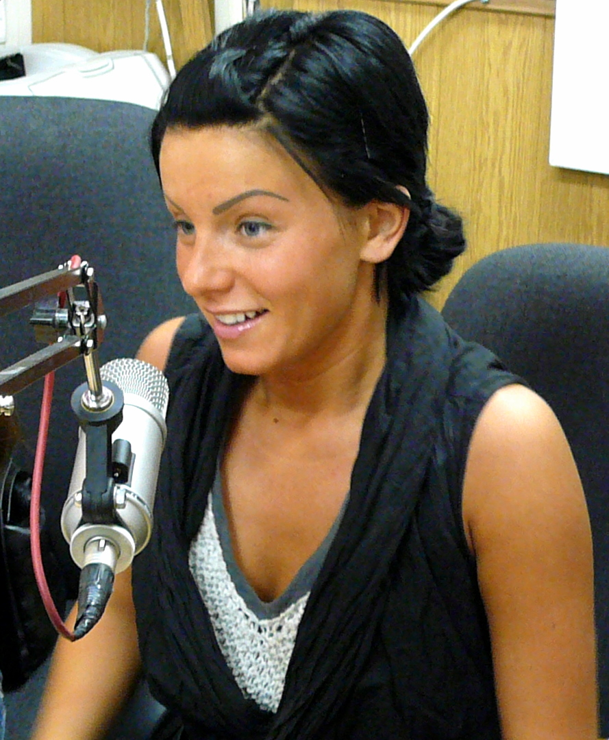 Singer Julia Volkova From T.A.T.u. at the Argentum - t.A.T.u 2008.